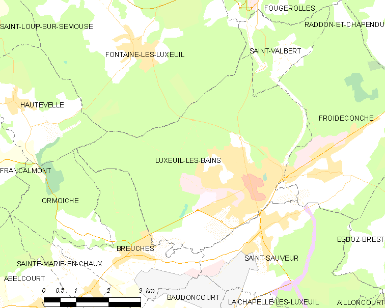 Map of French municipality